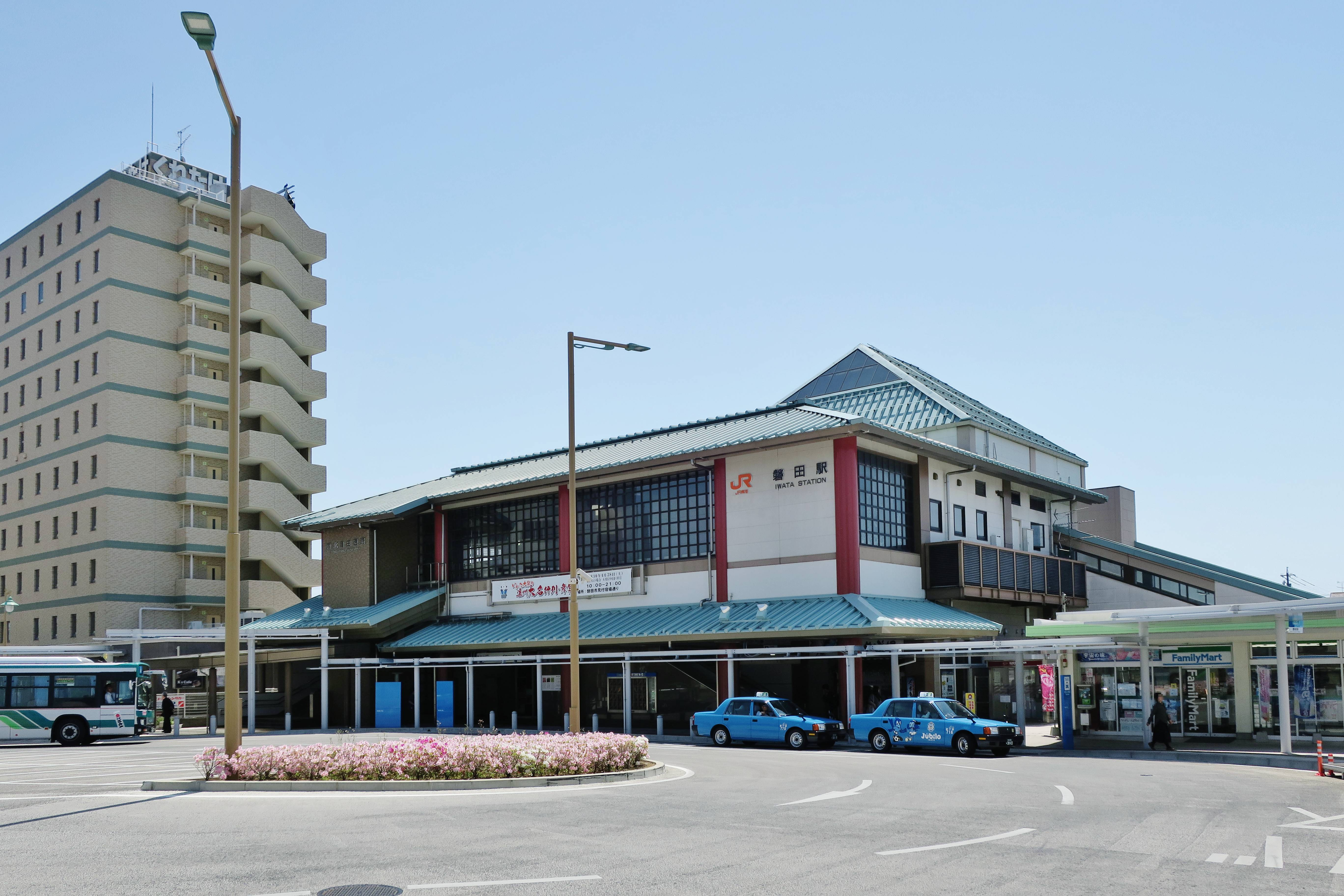 Iwata Station (Shizuoka) north.